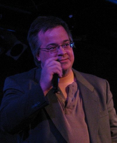 Jeff Raspe hosting the Asbury Par Music Awards in December 2012. By LHCollins